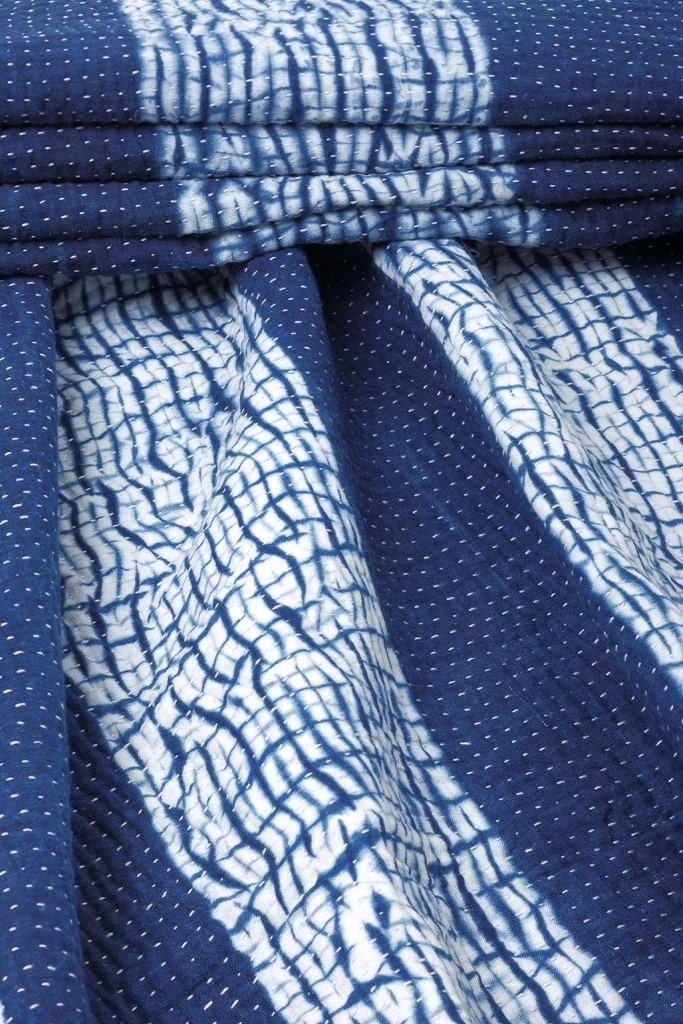 Hand stitched quilts Indigo dyed with Shibori pattern